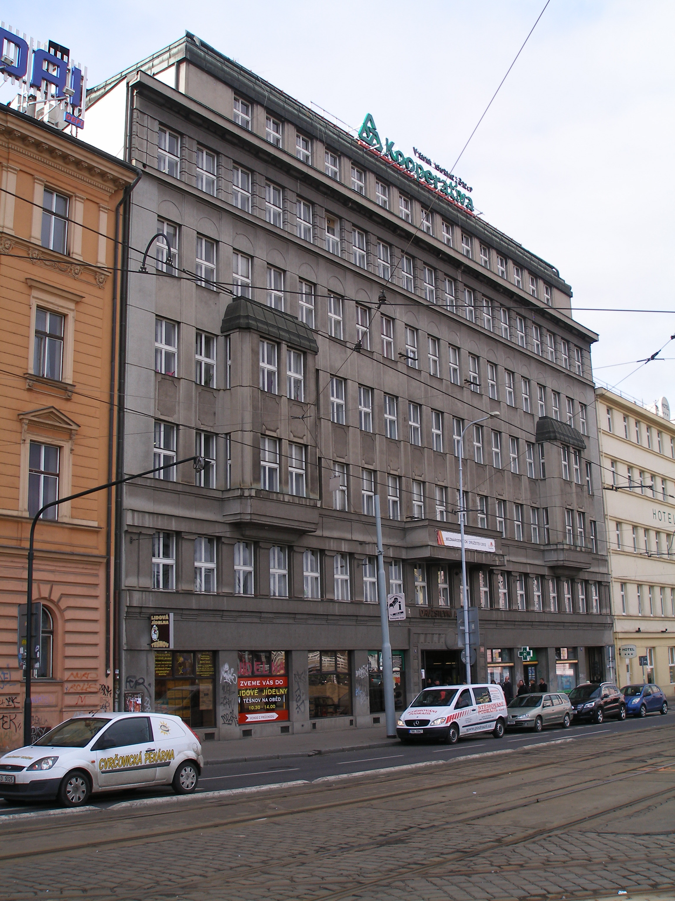 Head office of the Rail Safety Inspection Office - Těšnov 5 110 00 Praha 1